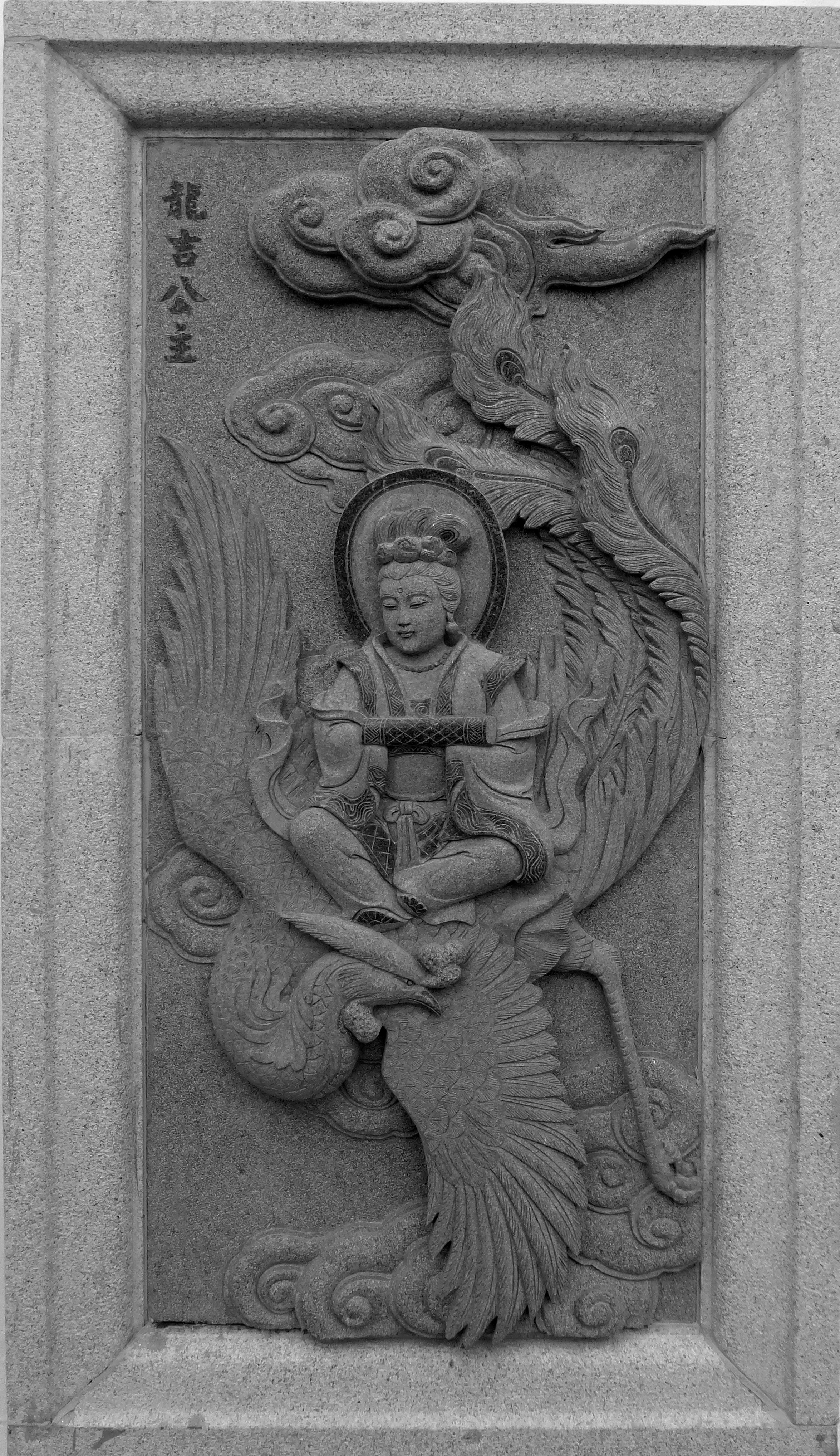 050 Long Ji Gongzhu, Investiture of the Gods at Ping Sien Si, Pasir Panjang, Perak, Malaysia Photograph from the Ping Sien Si Temple in Perak, Malaysia taken by Anandajoti.